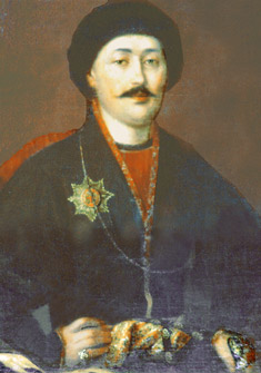 Prince Bagrat of Georgia